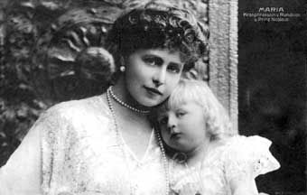 Queen Marie of Romania with her son Nicholas